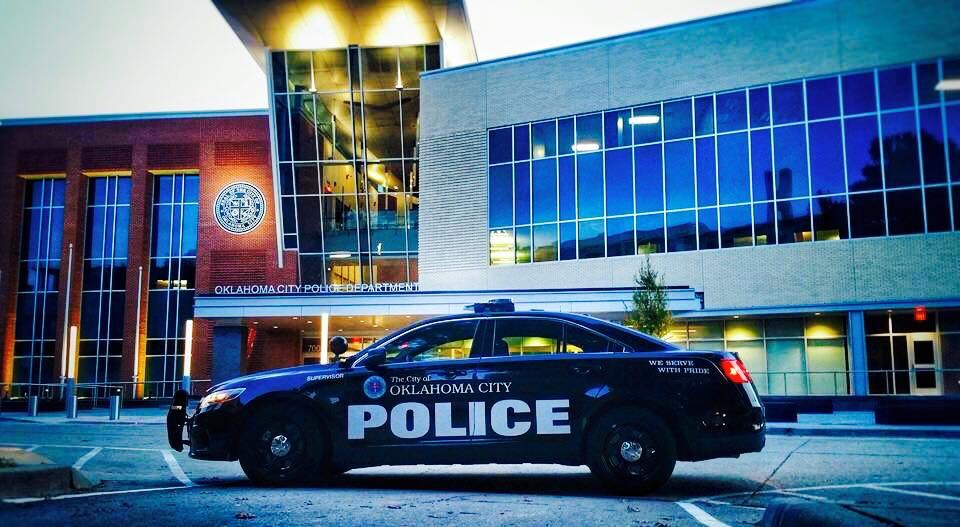 An OCPD supervisor car in front of the new police headquarters building, in downtown Oklahoma City.